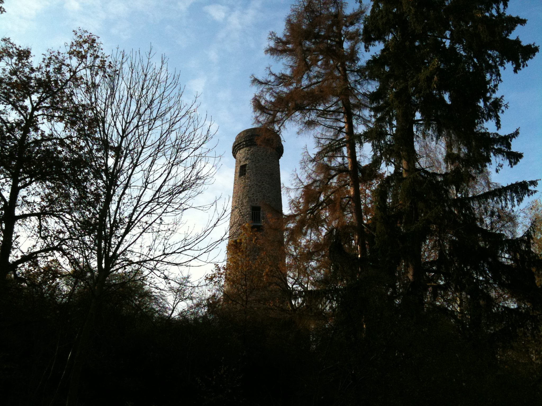 The Hainig tower near Lauterbach in Hesse, Germany.